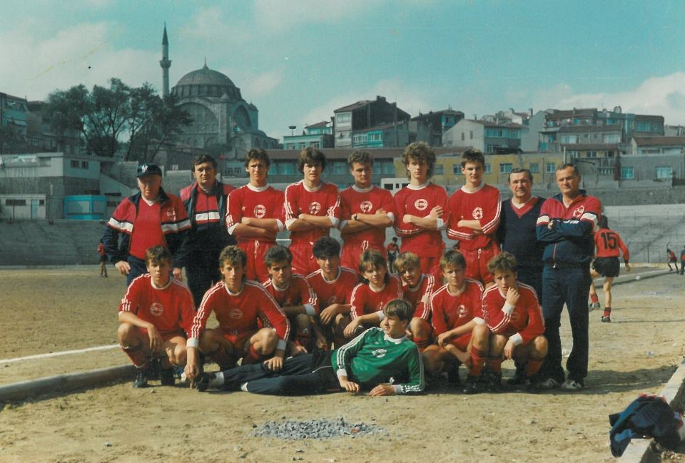 Cadets group of FC Dorog in Turkey.